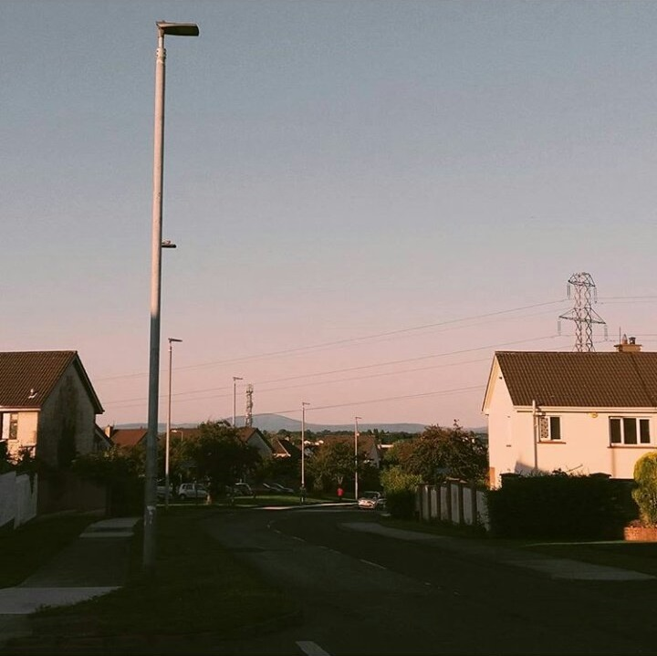 A view down Mulcair Road in Raheen, County Limerick, Ireland.